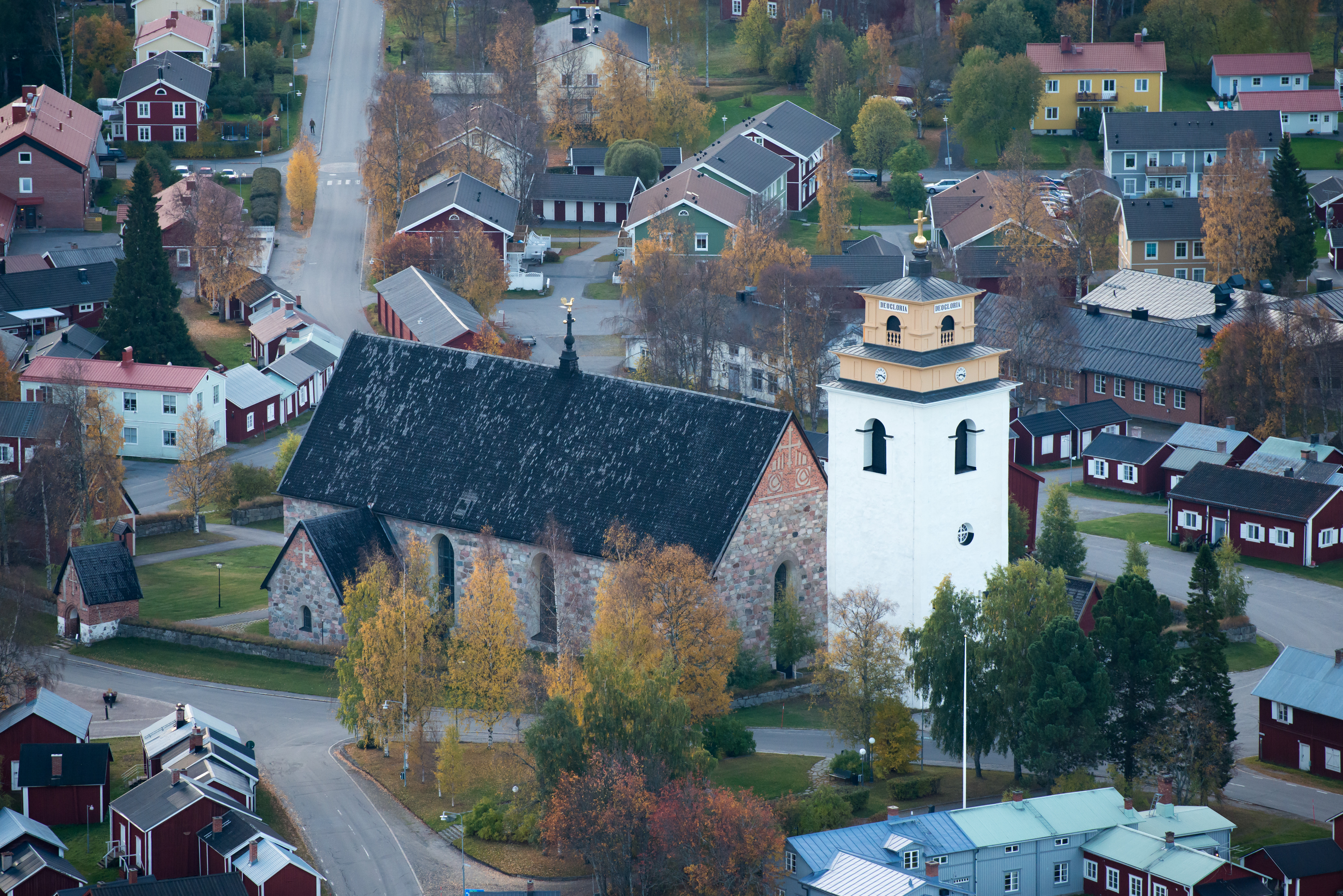 Nederluleå kyrka (church), part of Gammelstad Church Town World Heritage Site.